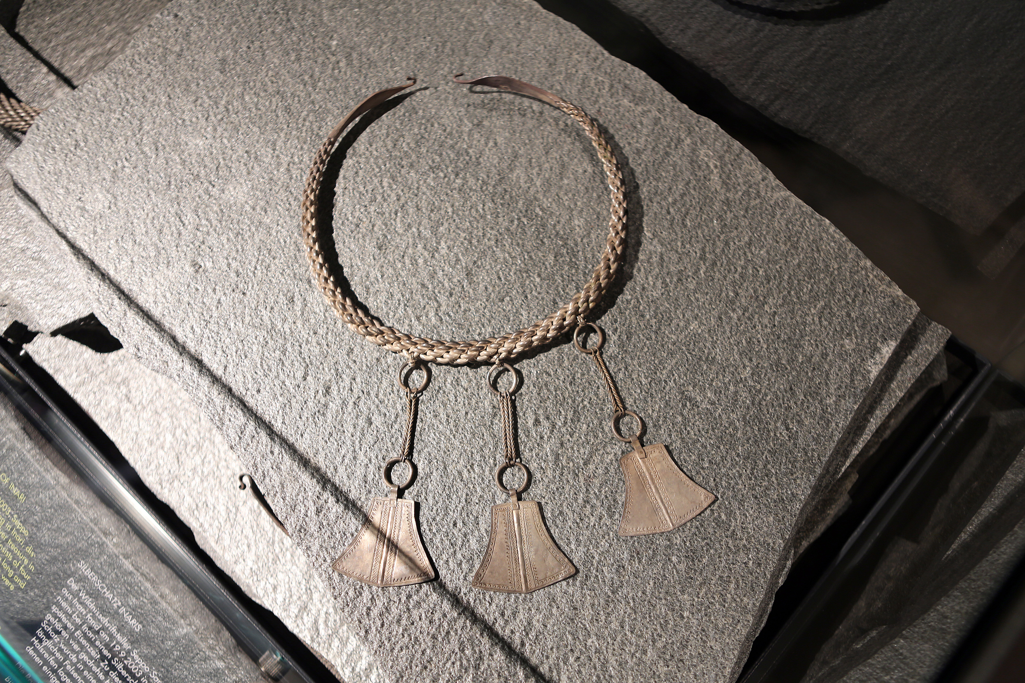 Silver neck band (found in Nangunniemi) at Siida museum, dedicated to the history and culture of the Sámi people, in Inari, municipality of Inari, Finland.